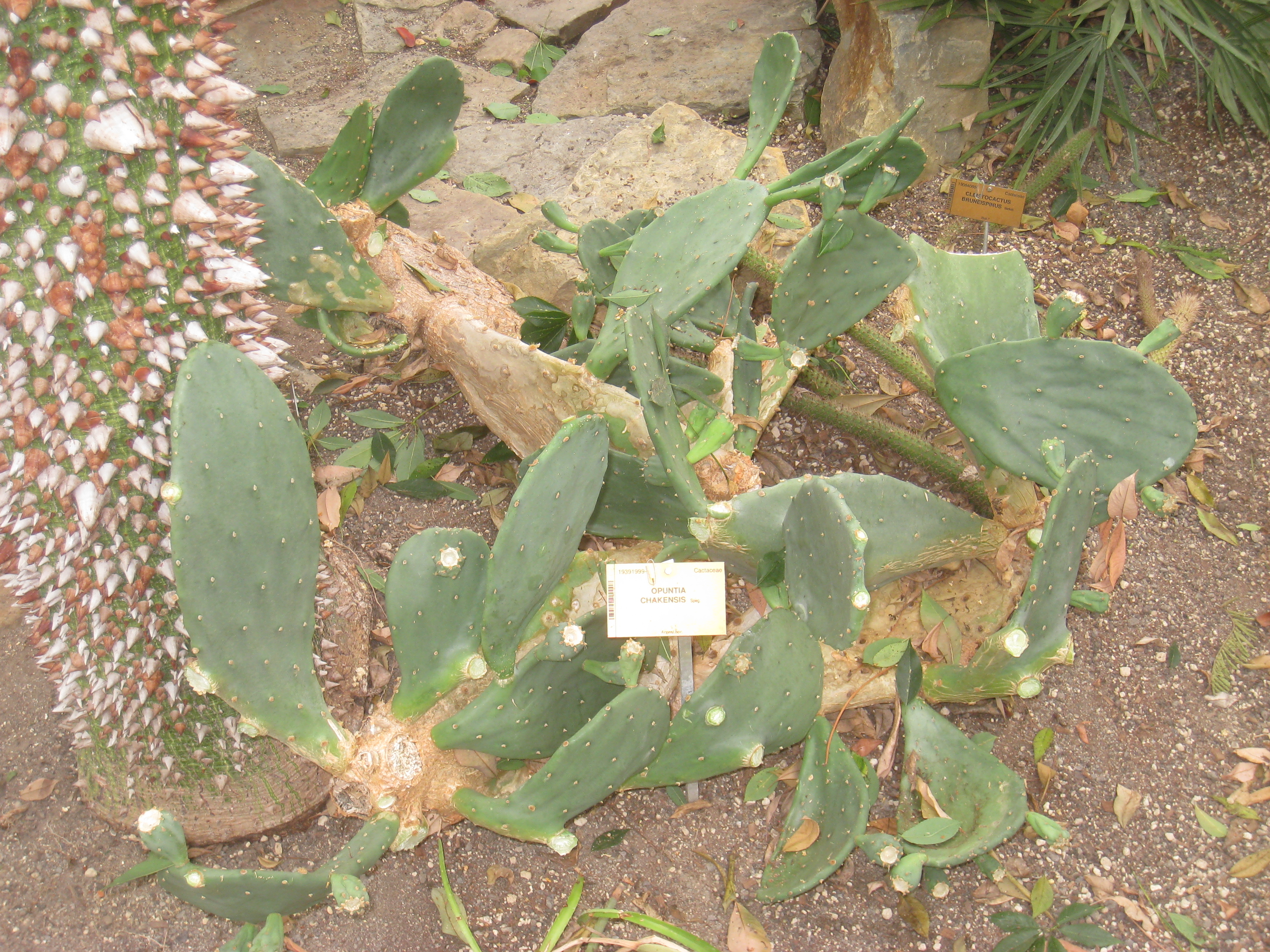 Opuntia chakensis specimen in the National Botanic Garden of Belgium, Meise, just north of Brussels, Belgium.